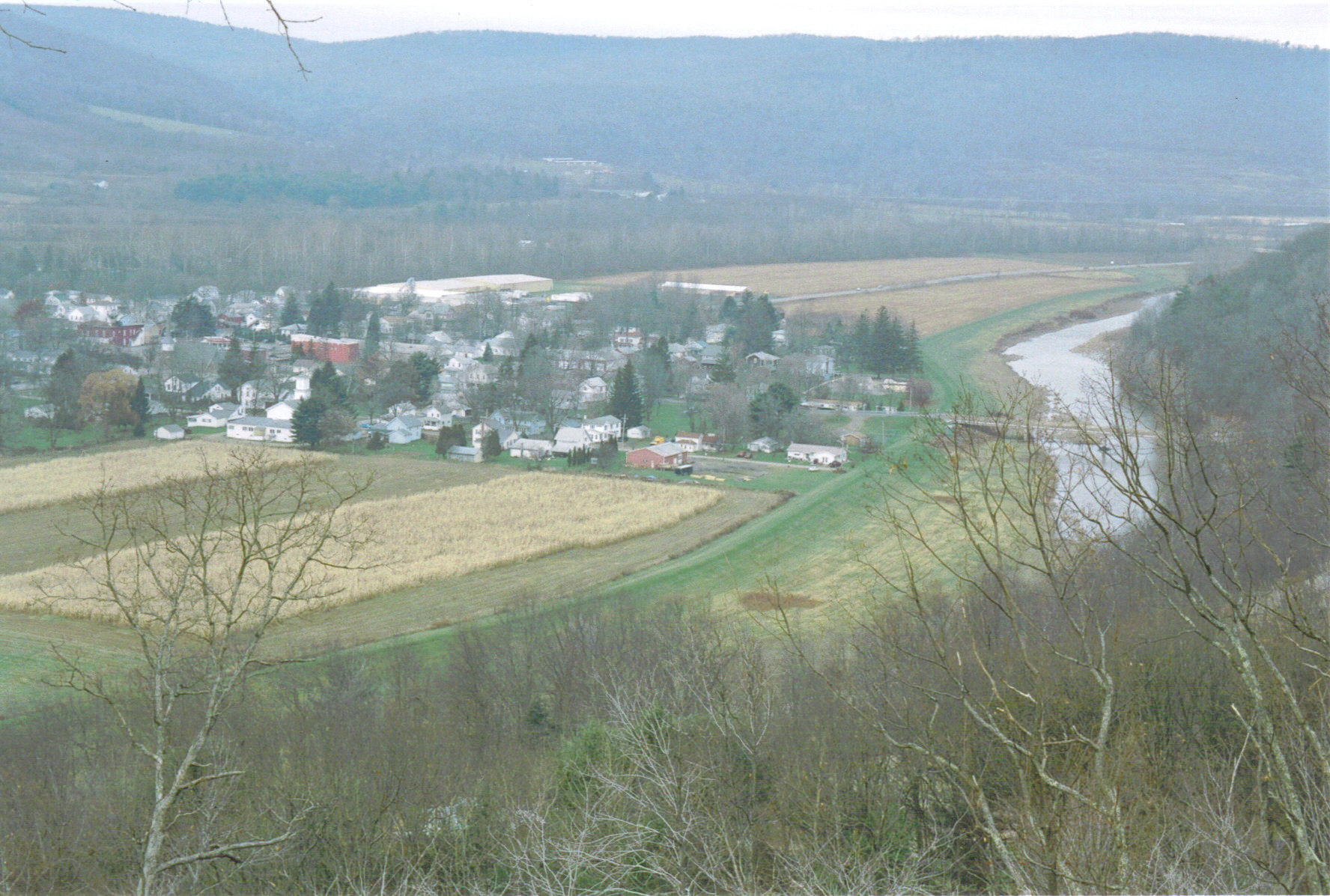 author - Dincher photographer - Dincher's wife. A view of the Tioga River and valley taken from the PA Welcome Center on U.S. Route 15